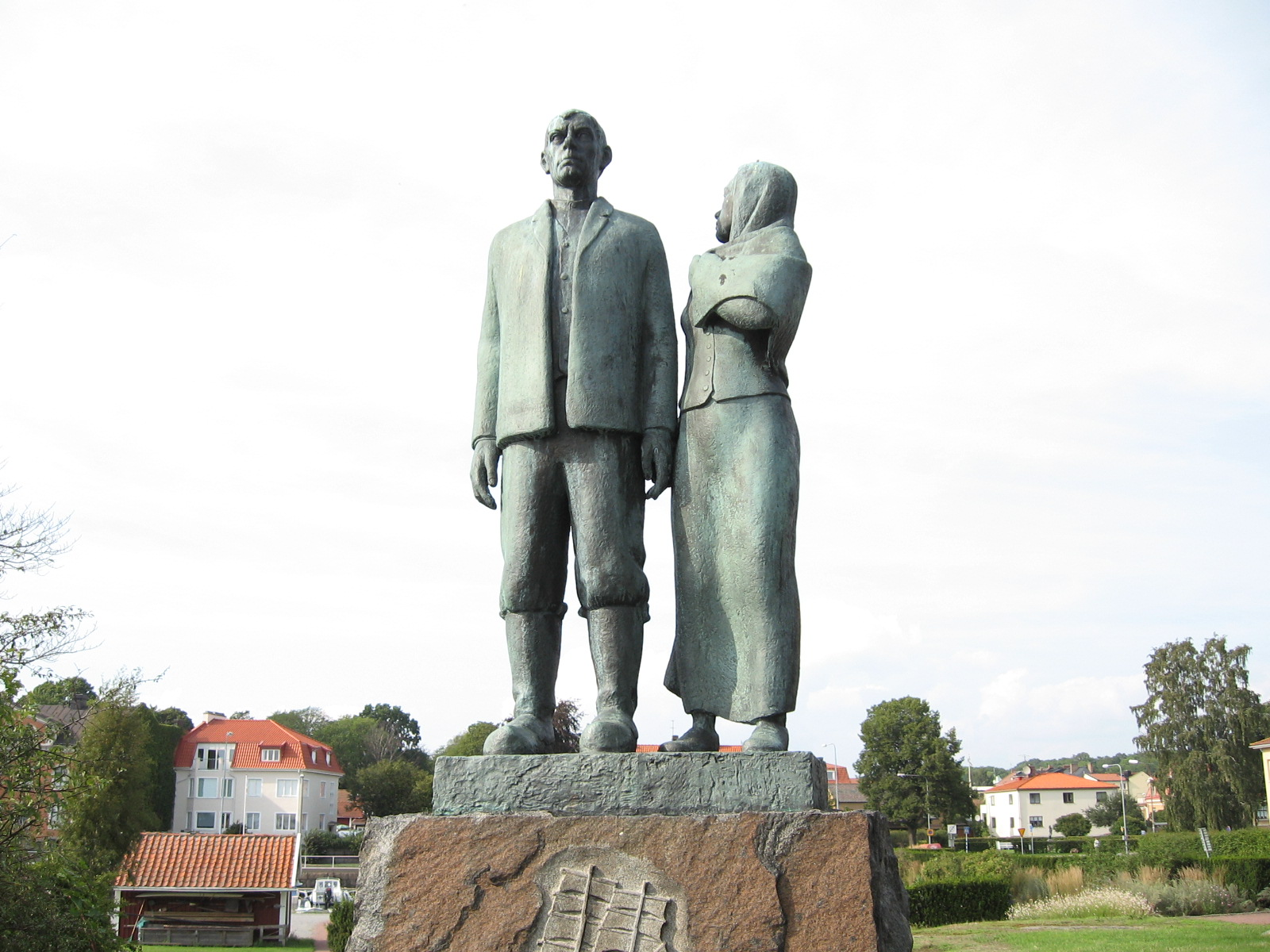 "The emigrant monument, Karl-Oskar and Kristina", sculpture by Axel Olsson in Karlshamn. Karl-Oskar and Kristina are the main characters in the series of four novels, The Emigrants, by Vilhelm Moberg.